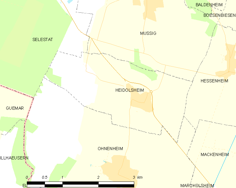 Map of French municipality